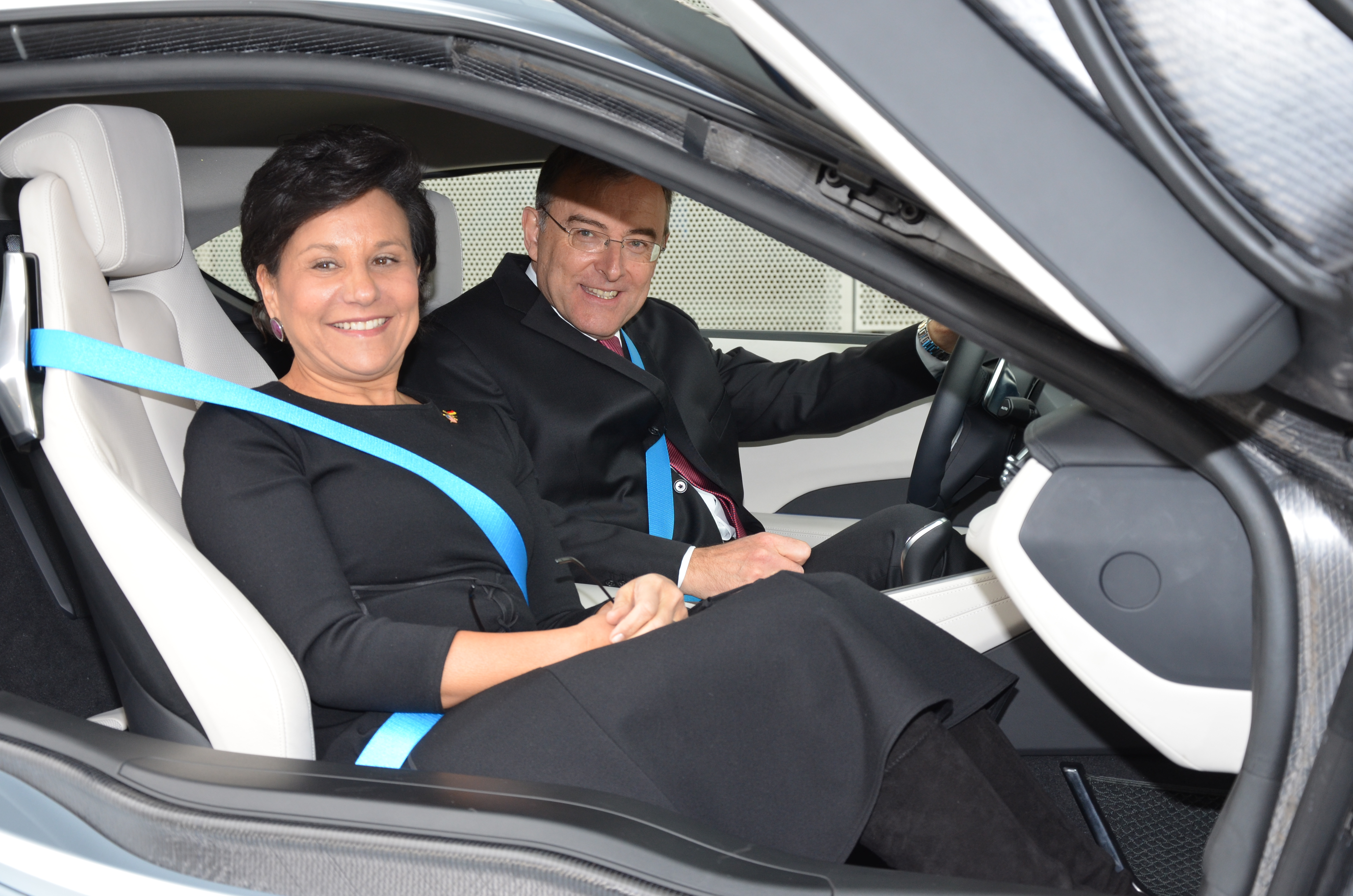 Secretary of Commerce Penny Pritzker visits Munich